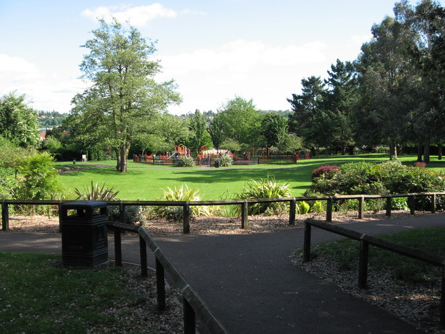 Preston Park recreation ground in Yeovil, Somerset